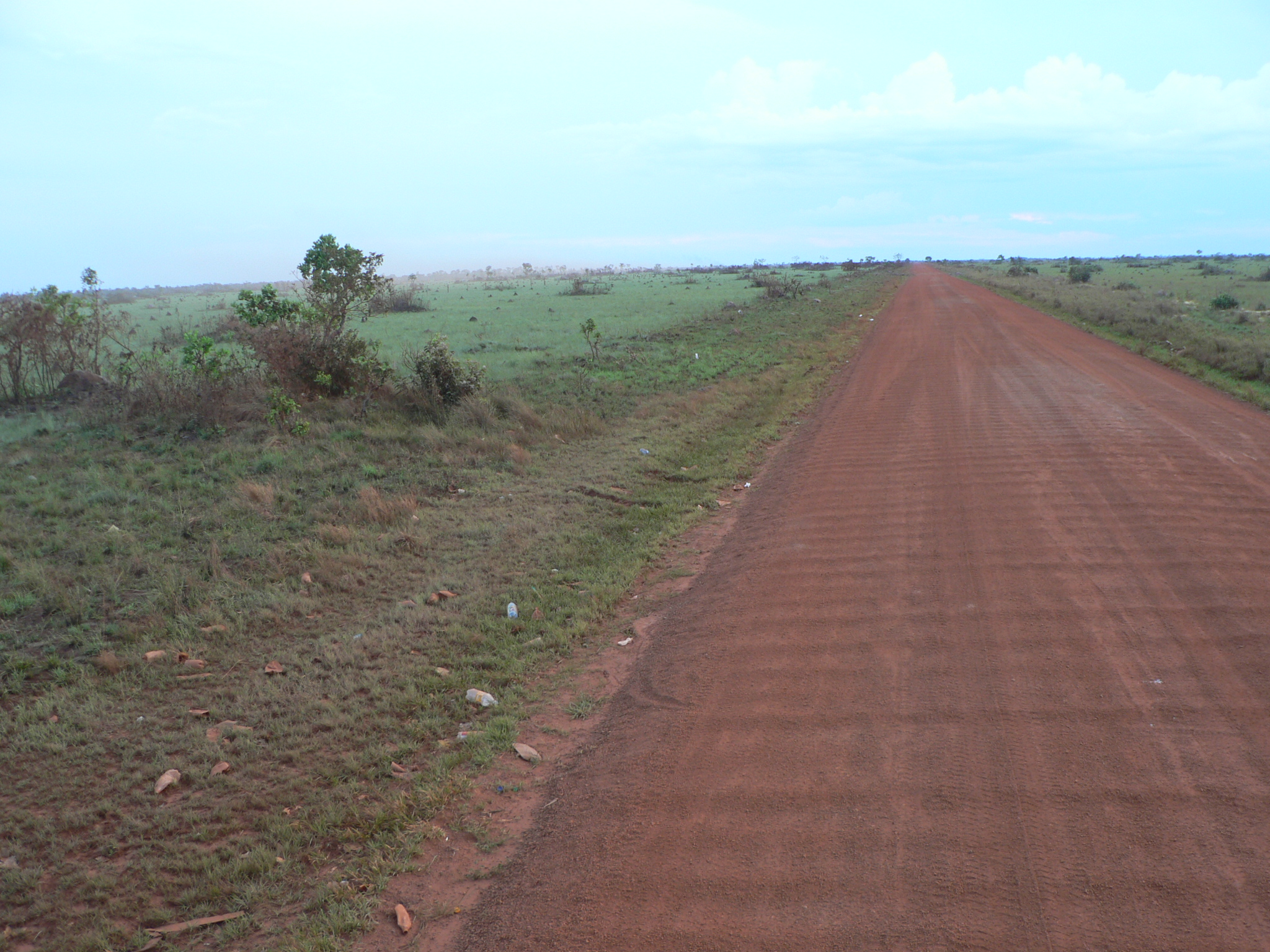 The central part of the Ruta 8, Beni, Bolivia north of Santa Teresa in the Llanos de Moxos. (2014)